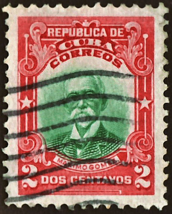 Stamp of Cuba (Republic); 1910; definitive stamp of the issue "Generals of Independence"; framed portrait of Máximo Gómez y Báez; postmarked Stamp: Michel: No. 15; Yvert & Tellier: No. 154; Scott: No. 240 Color: carmine to carmine red / green Watermark: none Nominal value: 2 Centavos Postage validity: from 1 February 1910 until 1940 (?) Stamp picture size: 17.5 x 23.5 mm